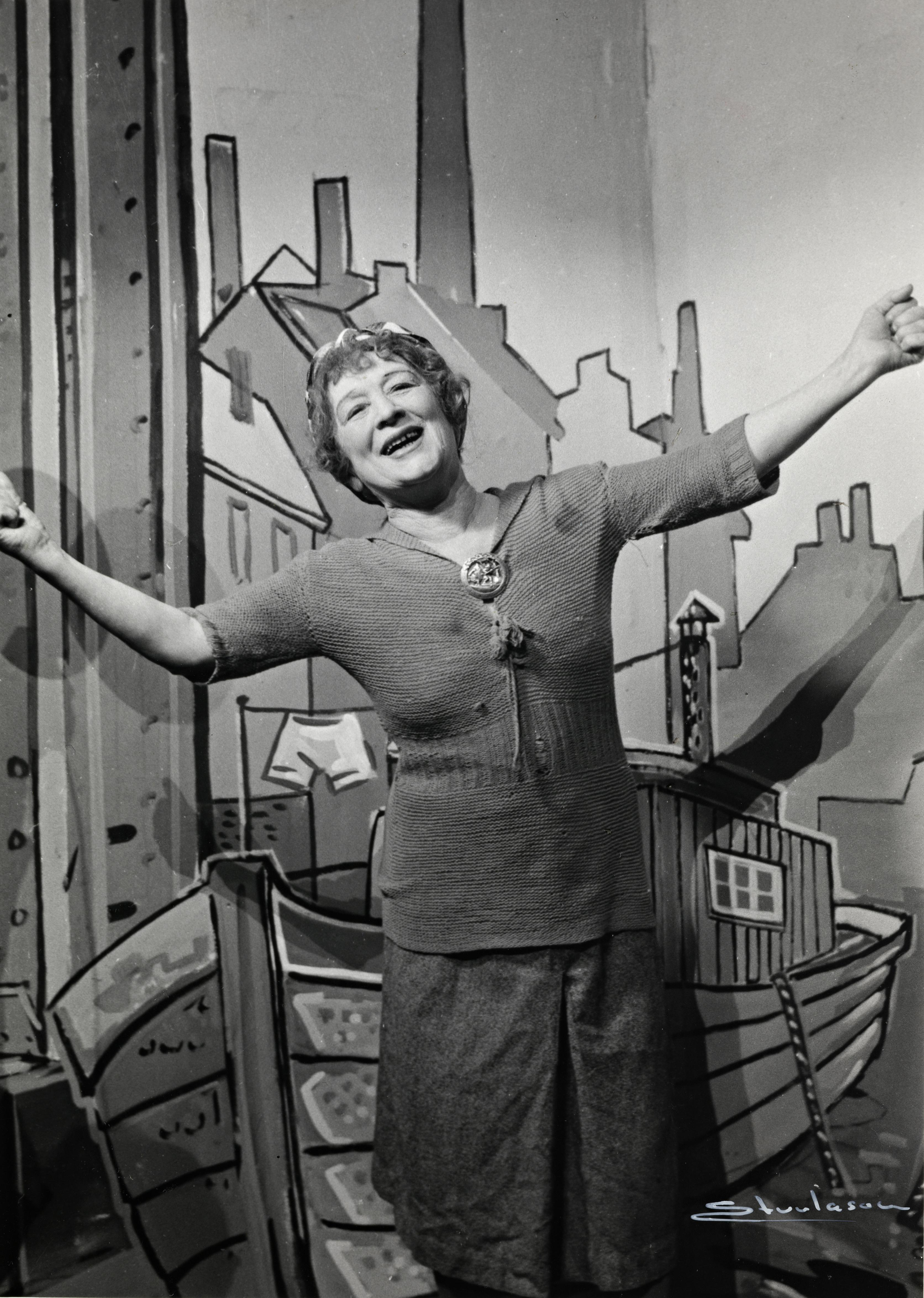 Beskrivelse / Description: Sangen «E’ hel ei, e’ halv ei» av Arne Svendsen. Dato / Date: 1955 Sted / Place: Oslo, Chat Noir Fotograf / Photographer: Sturlason Digital kopi av original / Digital copy of original: s/h papirpositiv Eier / Owner Institution: Nasjonalbiblioteket / National Library of Norway Lenke / Link: Bildesignatur / Image Number: blds_06040